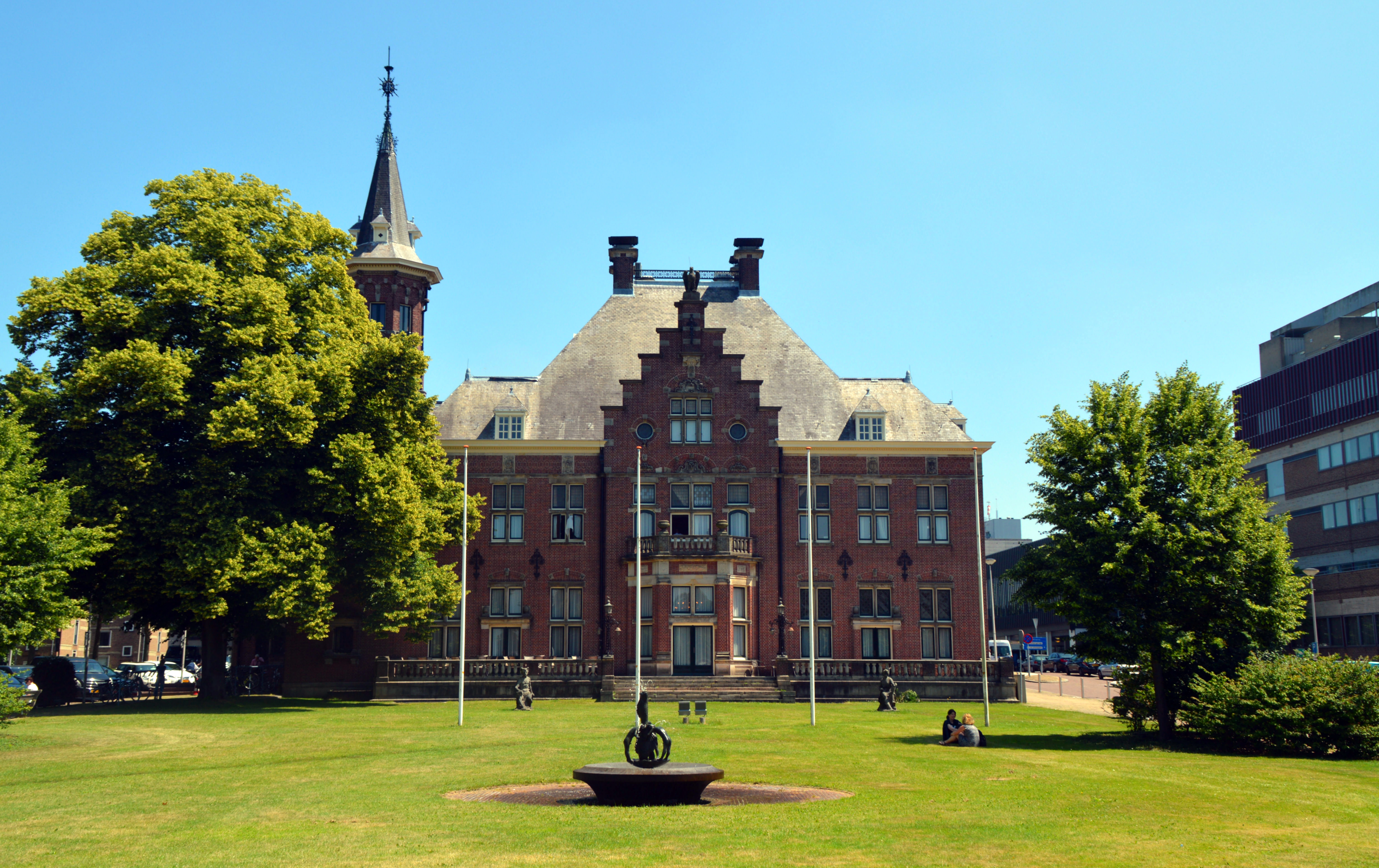 Huize Heijendaal Nijmegen Charles Estourgie 1914